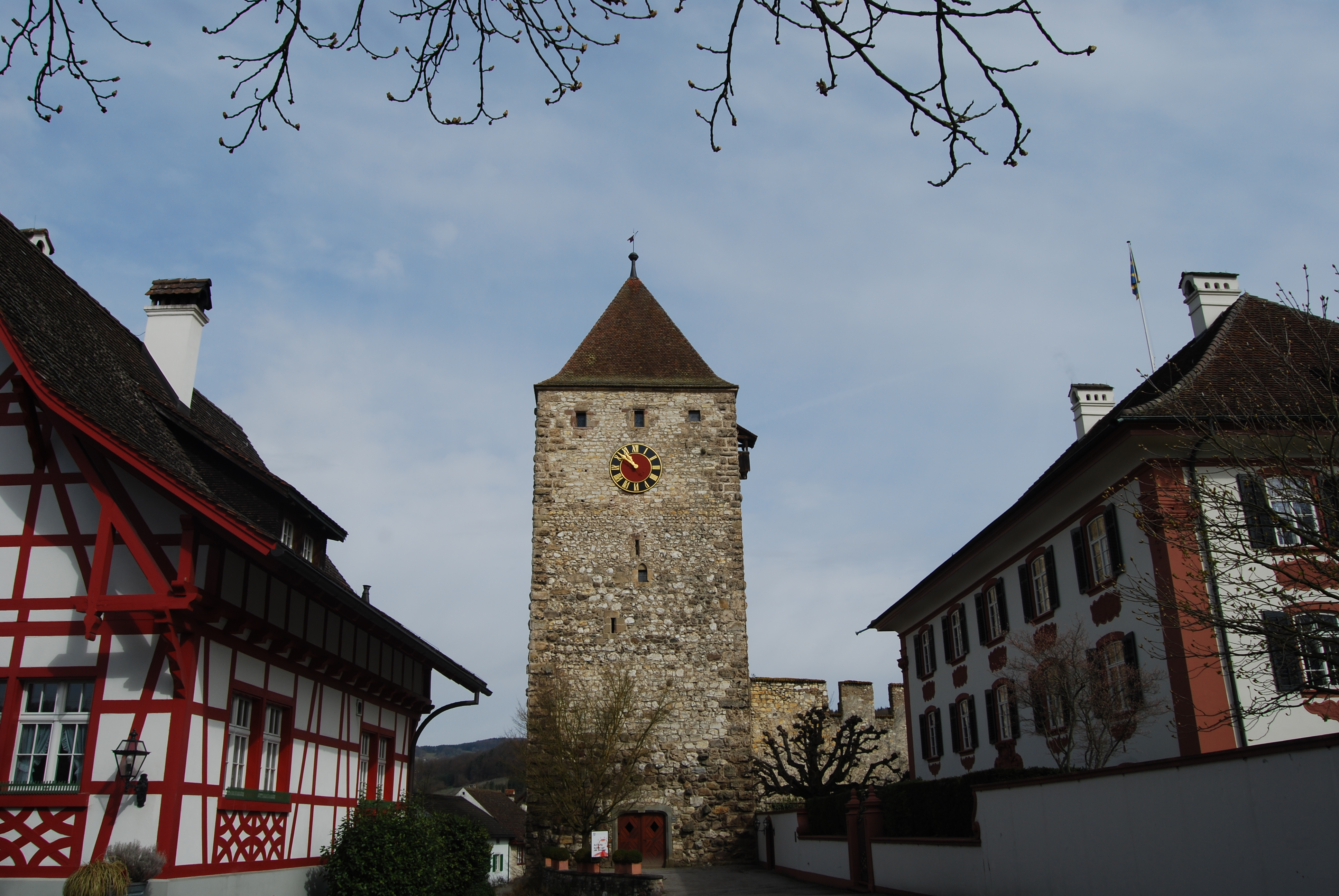 Tower of Kaiserstuhl, canton of Aargau, SwitzerlandEsperanto: Turo de Kaiserstuhl, Kantono Argovio, Svislando